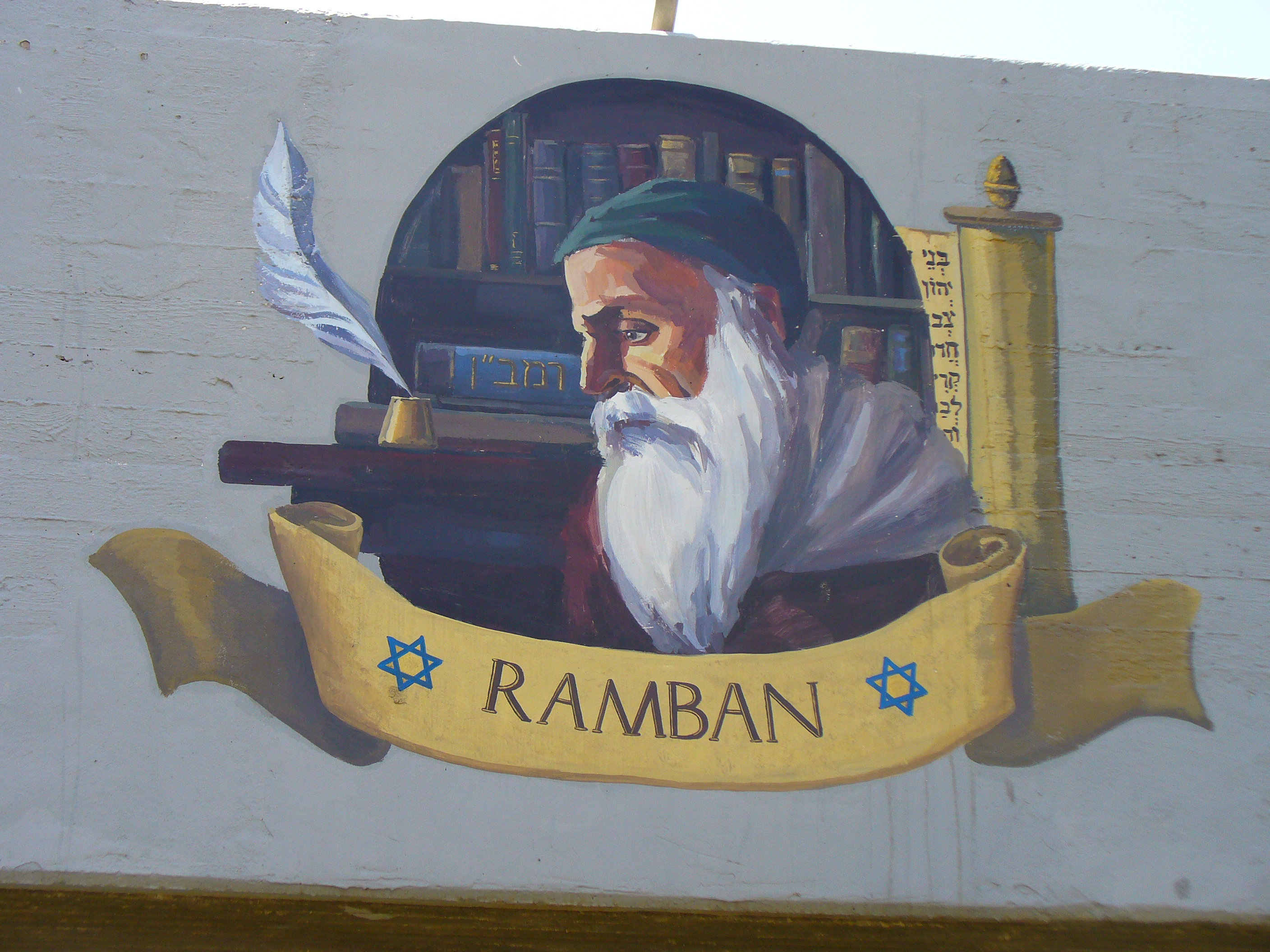 Wall painting of Rabbi Moses ben Nachman , at the wall of Akko's Auditorium. Don't know the painters name though... More information (in Hebrew) about the paintings can be found here